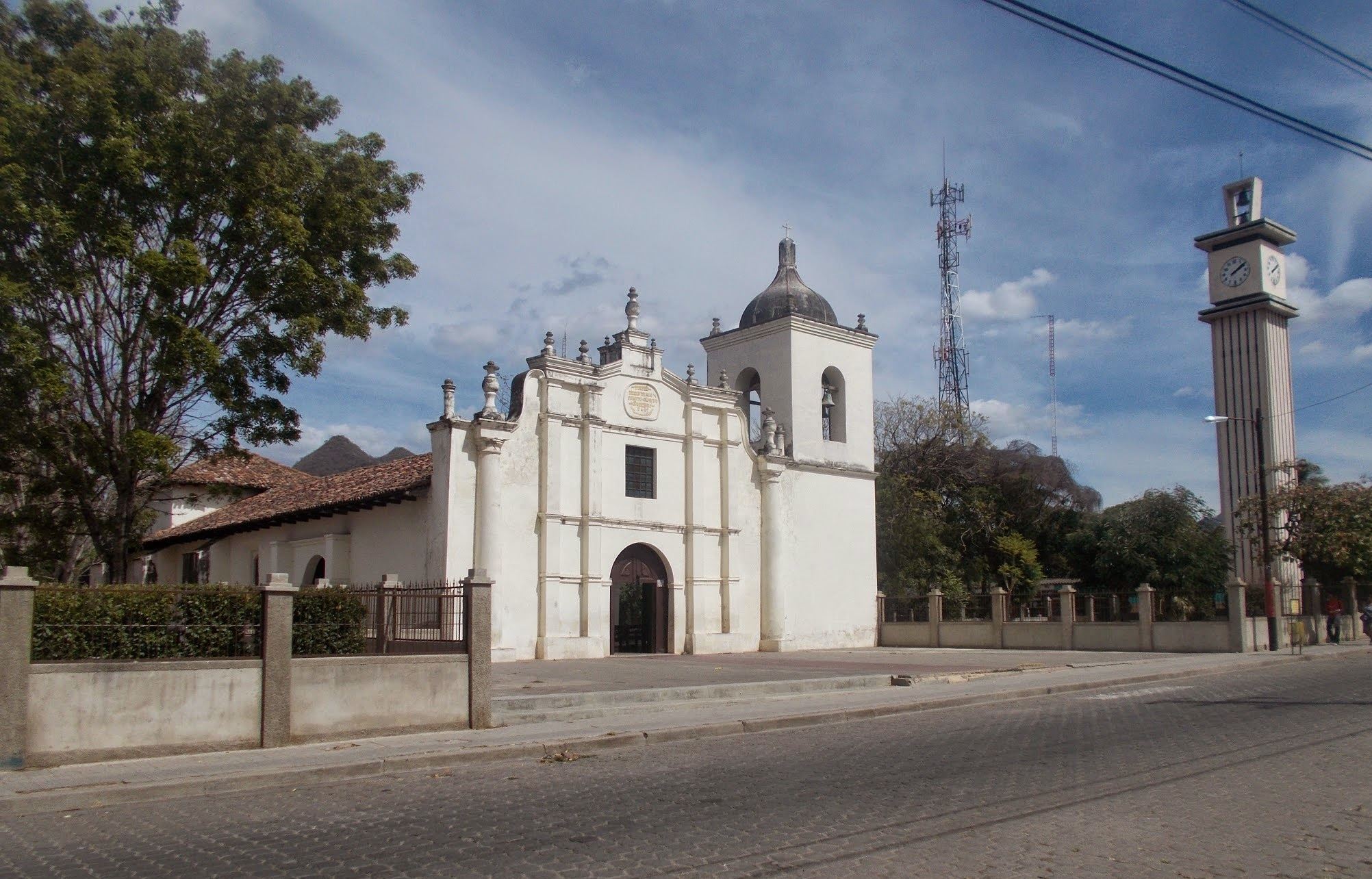 Parochial church of Somoto, Madriz, Nicaragua.